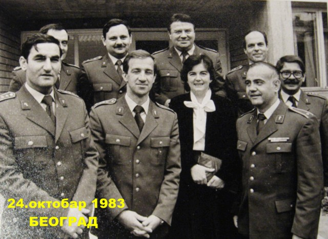 The first generation of doctors in aviation medicine VMI (Yugoslavia) Srpski (latinica): Prva generacija specijalista vazduhoplovne medicine u Jugoslaviji.